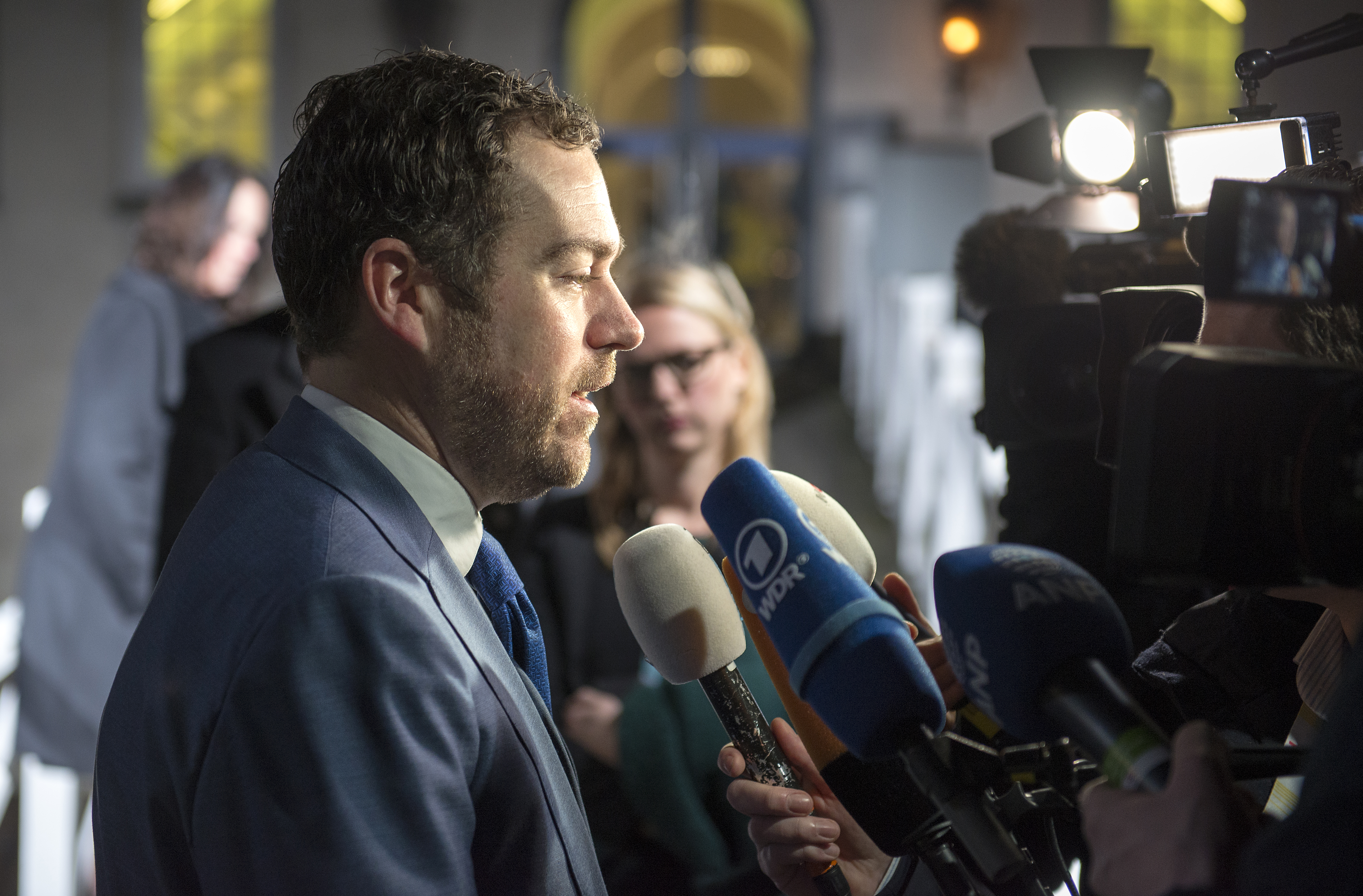 Photo BZ | Aad Meijer In the Maritime Museum in Amsterdam.